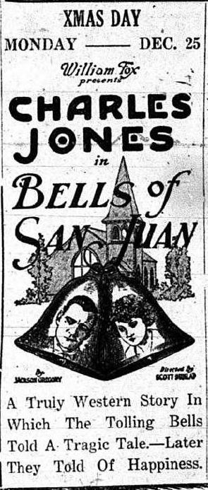 Newspaper advertisement for the American western film Bells of San Juan (1922), on page 4 of the December 22, 1922 St. Louis Argus.